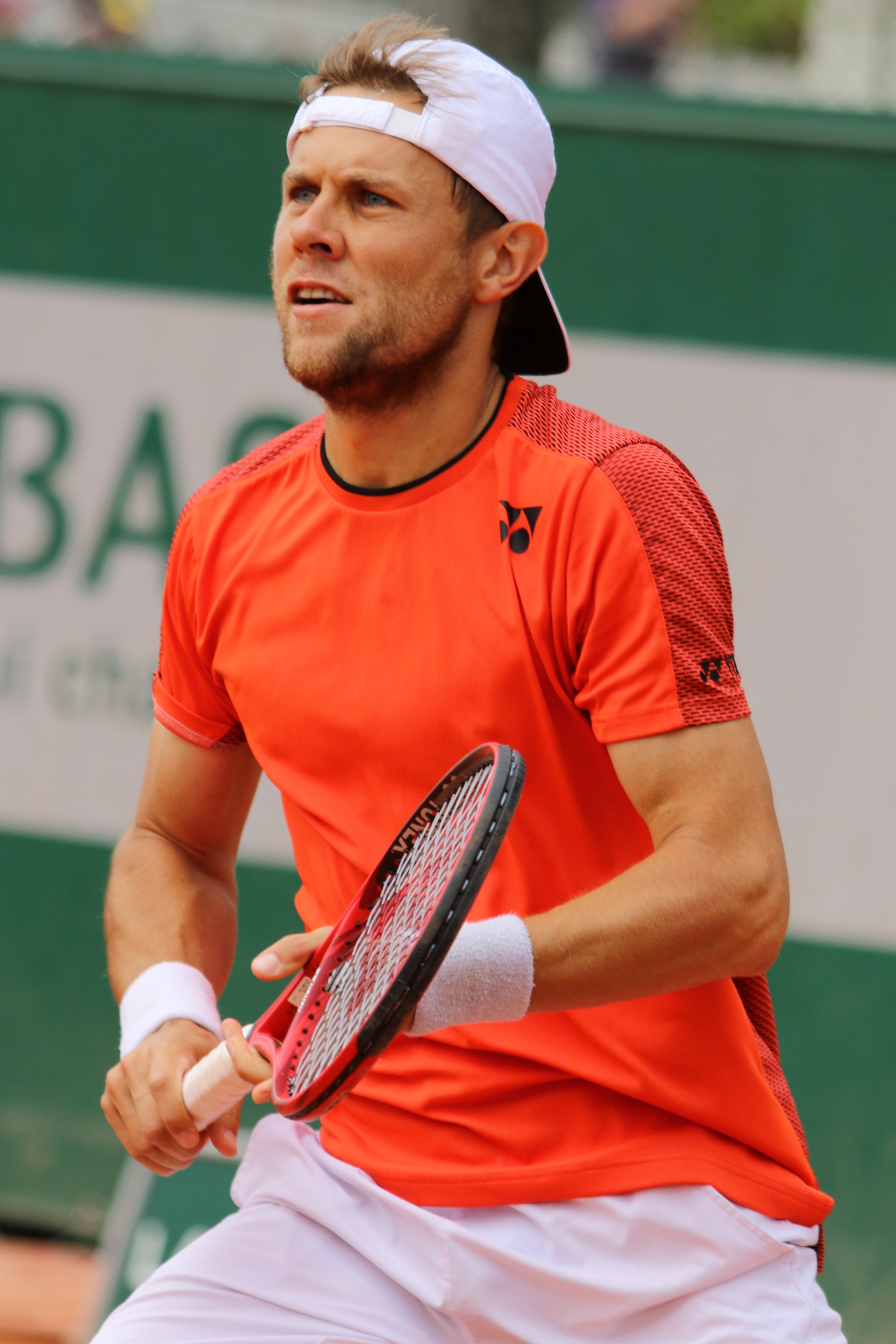 Albot RG19 (3)